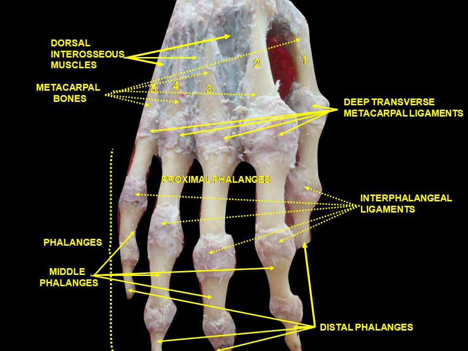 Anatomical dissections